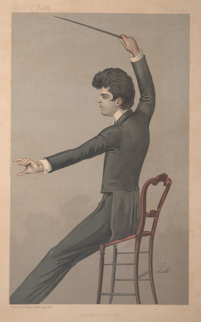 Men of the Day No.574: Caricature of Sig P Mascagni. Caption reads: "Cavalleria Rusticana"